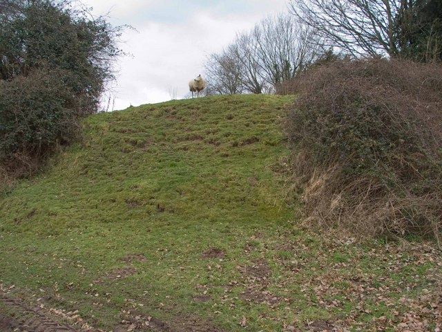 Motte at Stapleton Here's a sheep playing 'I'm the king of the castle' on the motte next to the church.